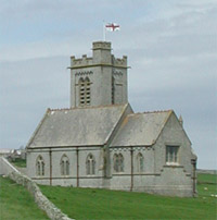 St Helena's Church on Lundy Island